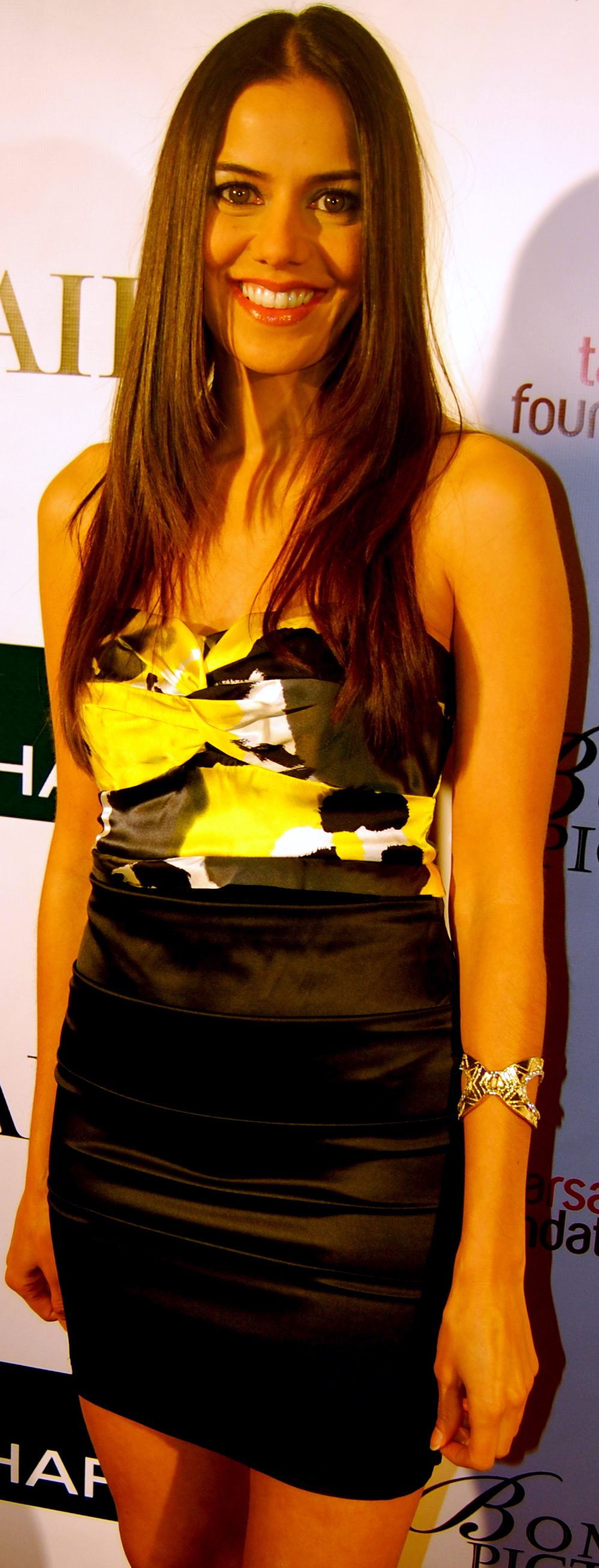 Sheetal Sheth